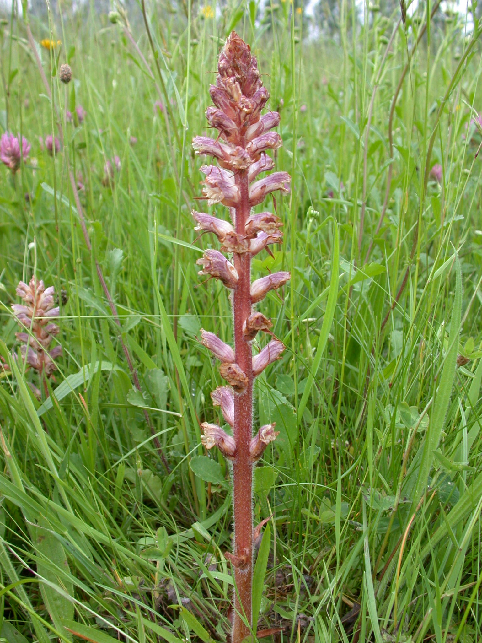 Orobanche minor var. minor